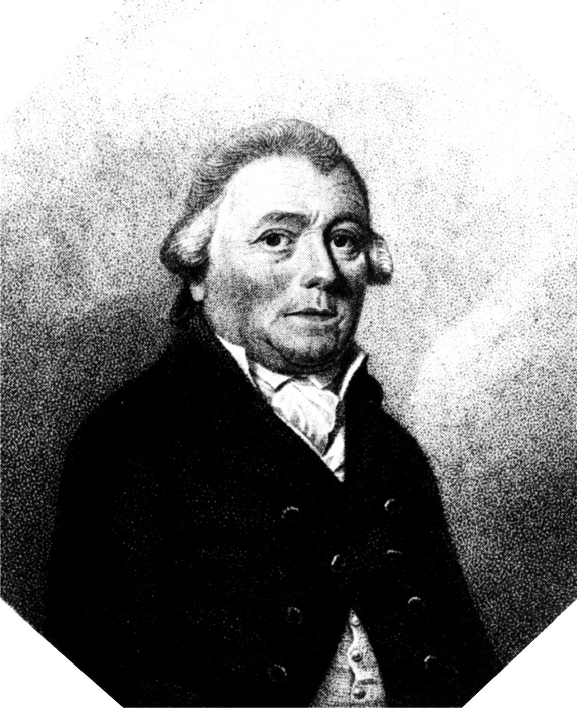 William Forsyth (1737-1804)